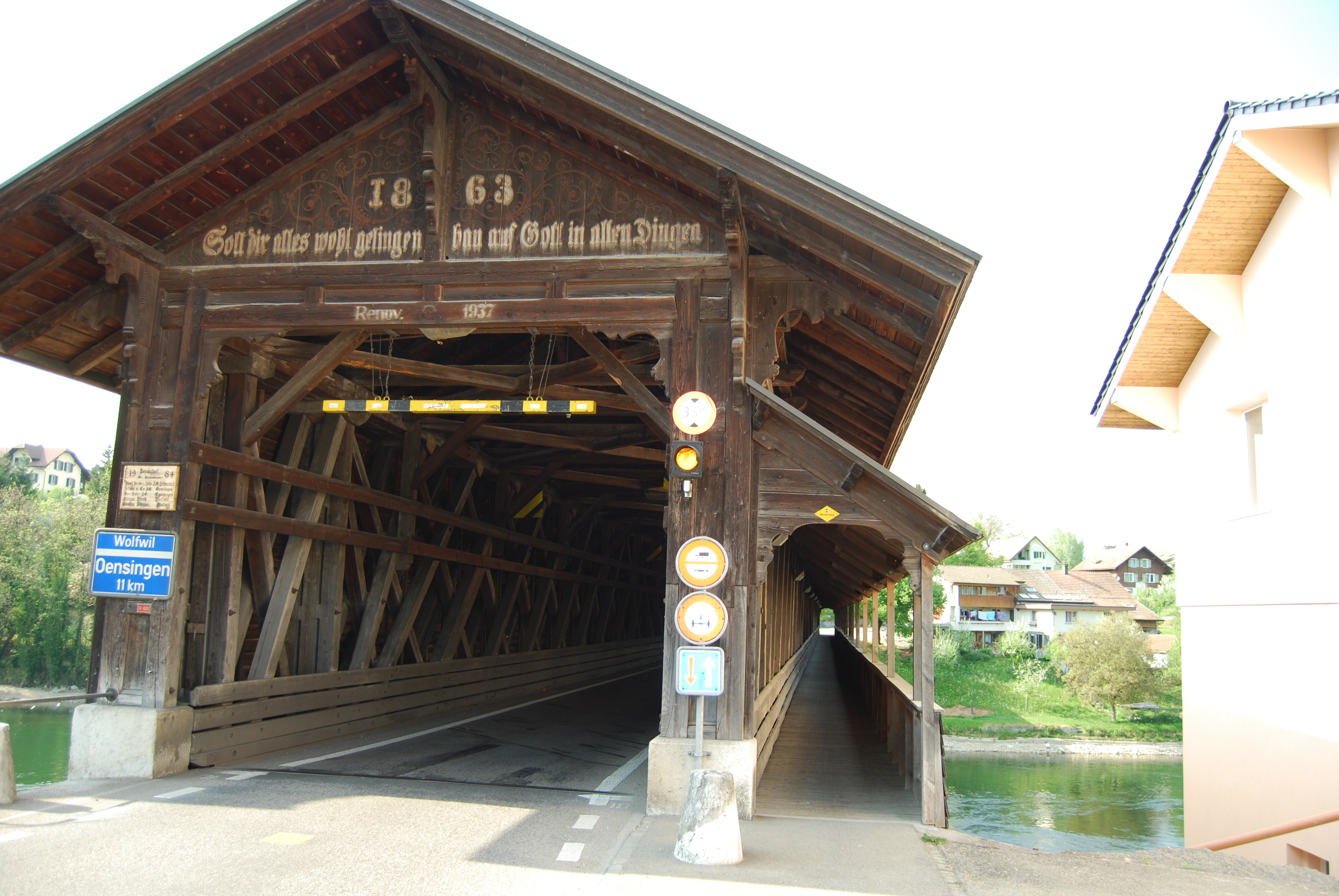 Wooden bridge over Aar from Murgenthal, canton of Aargovia, to Fulenbach, canton of Solothurn, Switzerland